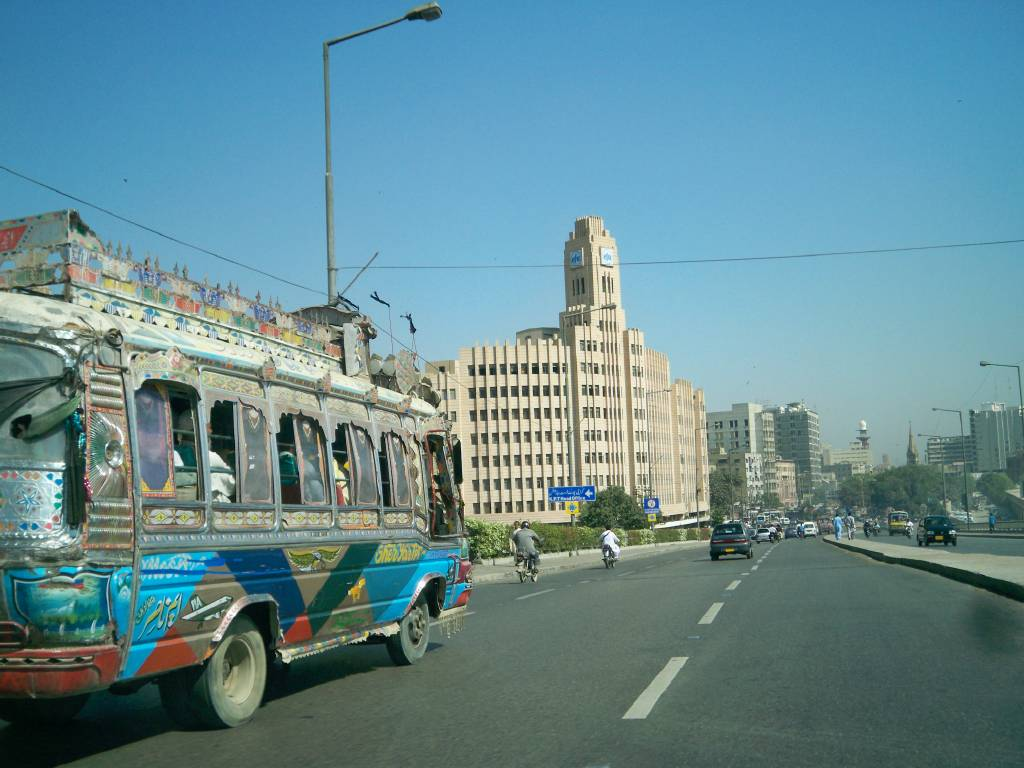 Karachi Streetshots. Karachi by day, on the road.